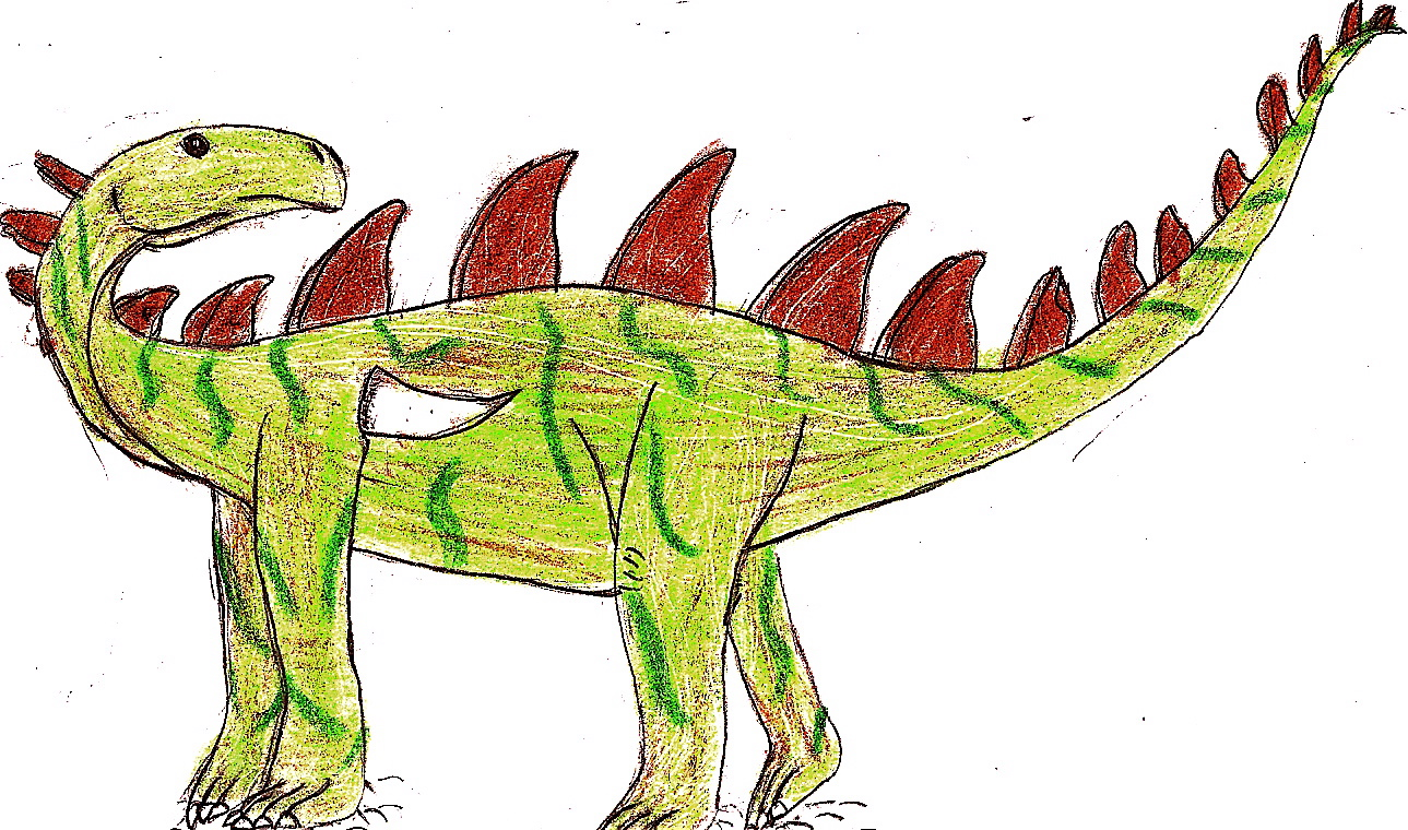 Lexovisaurus from the Middle Jurassic of England